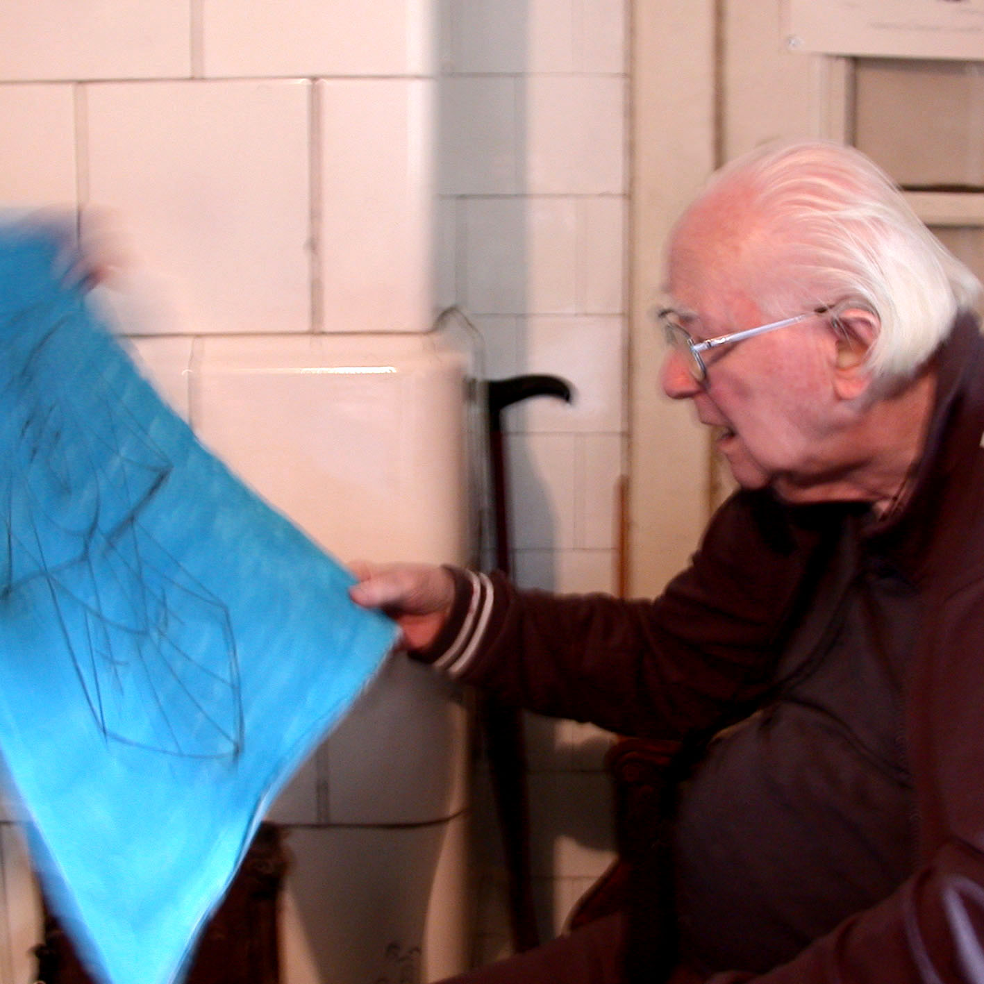 Tamas Lossonczy Hungarian painter, at home.